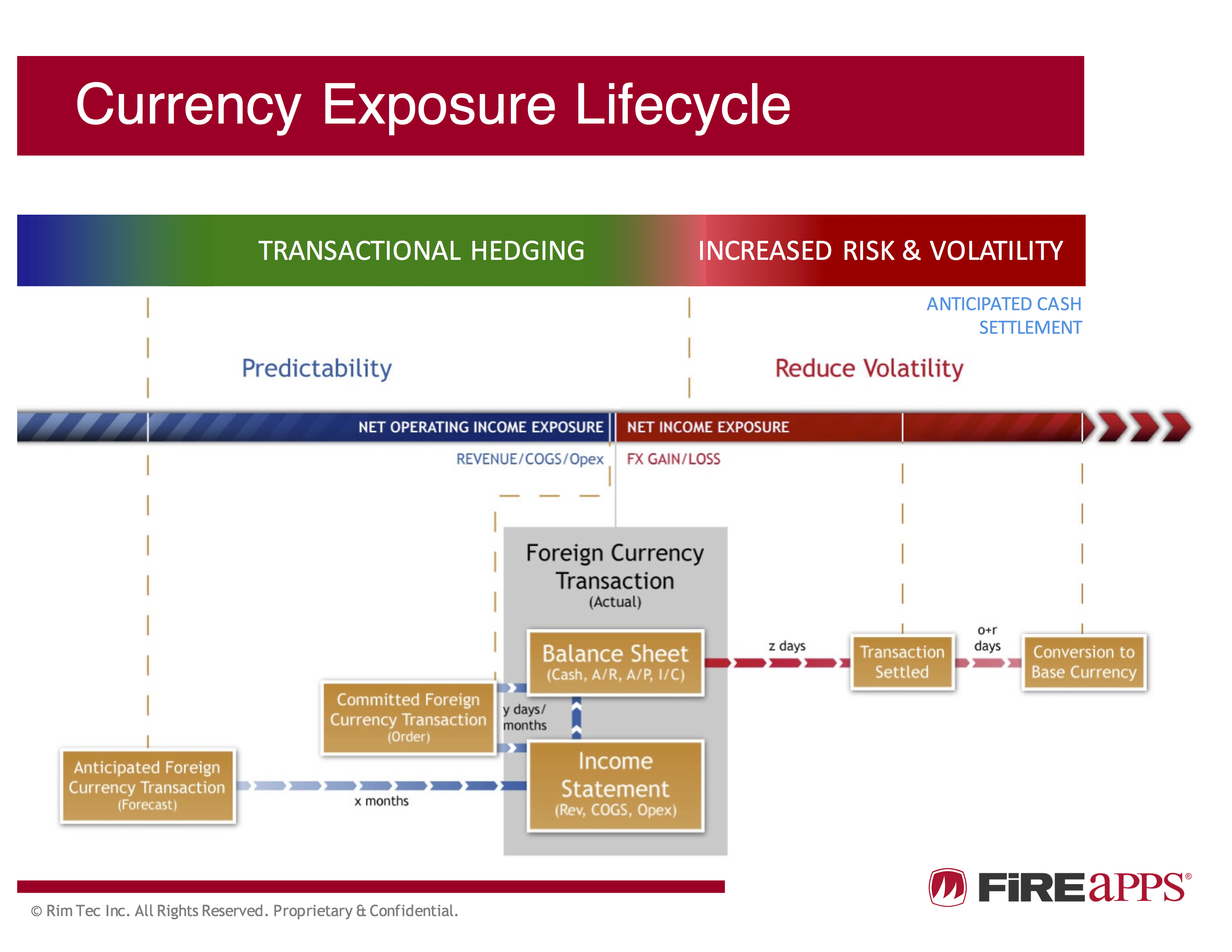 Currency analytics help companies improve predictability of cash flow and reduce the impact of volatility on the balance sheet